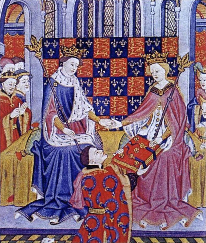 John Talbot, 1st Earl of Shrewsbury, presents the Book of Romances (Shrewsbury Book) to Margaret of Anjou, wife of King Henry VI